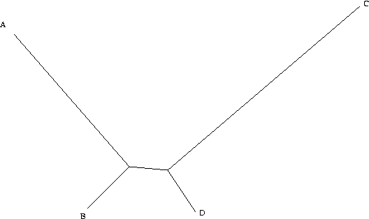 Generated by me in XFig; This image is placed permanently and irrevocably in the public domain by me. This is an image of a phylogenetic tree used as an example of long branch attraction, a problem with maximum parsimony